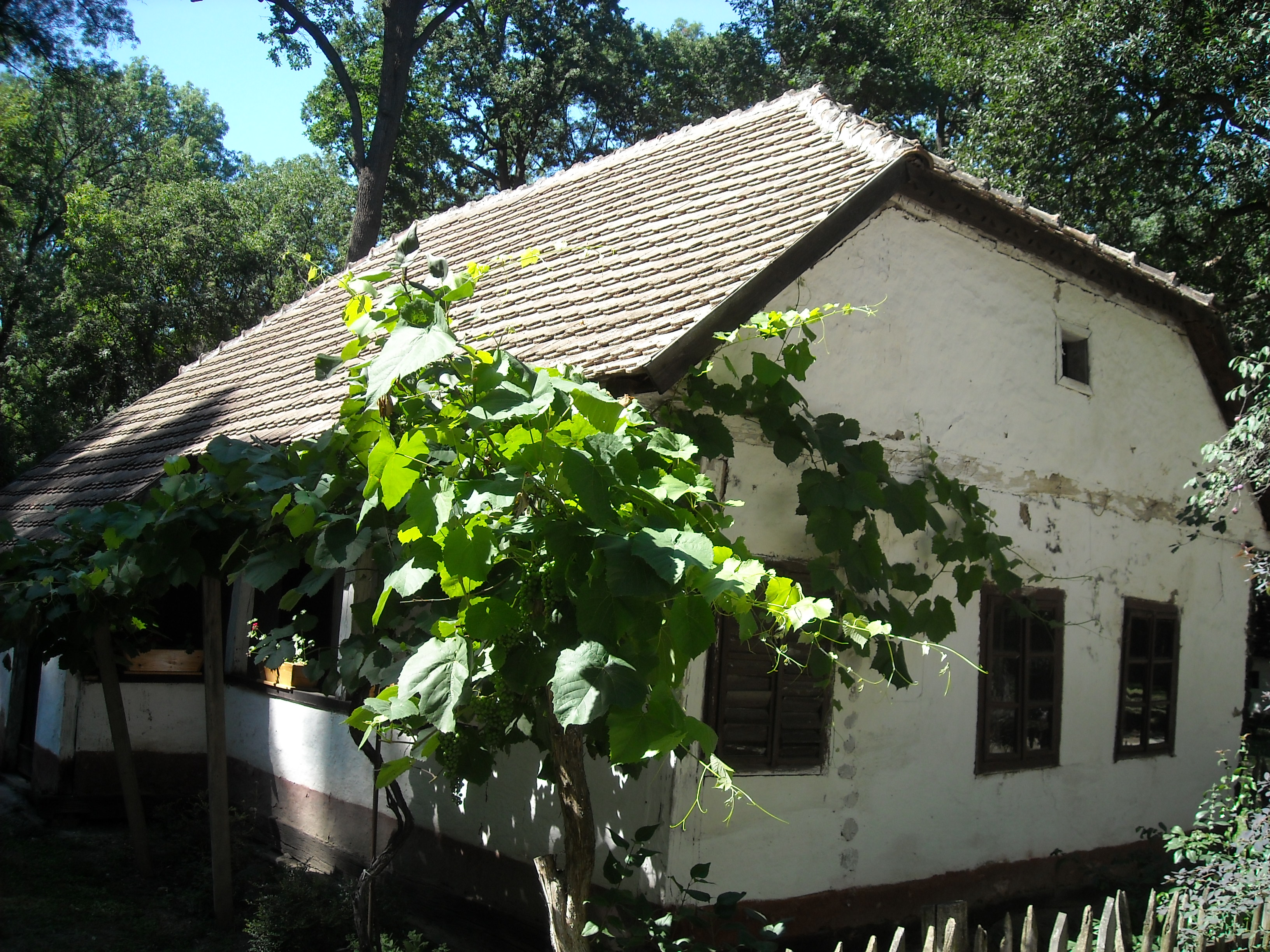 a potter's house from Birchiș (Arad County, Romania), from the late 19th century